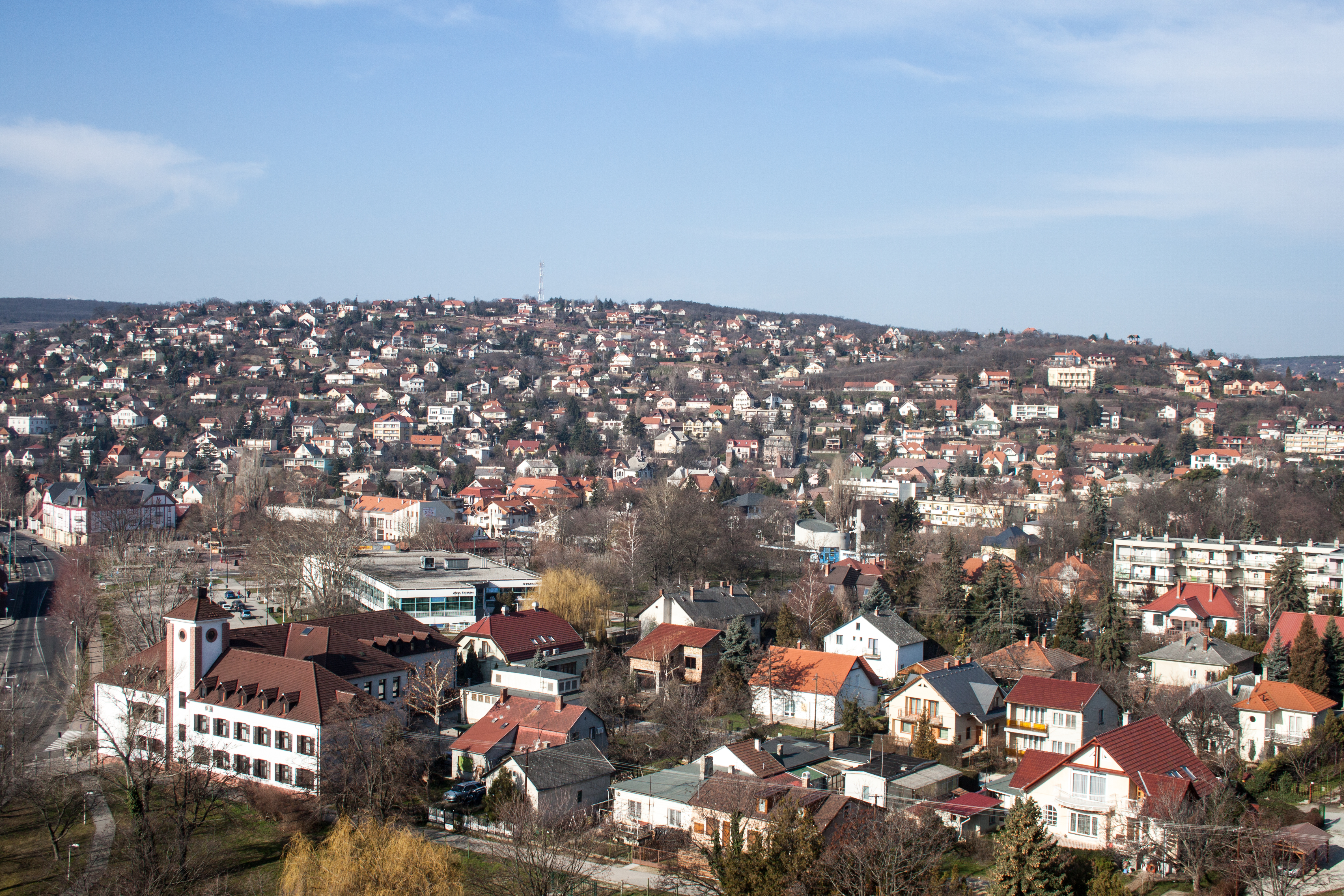 Balatonalmádi center from above